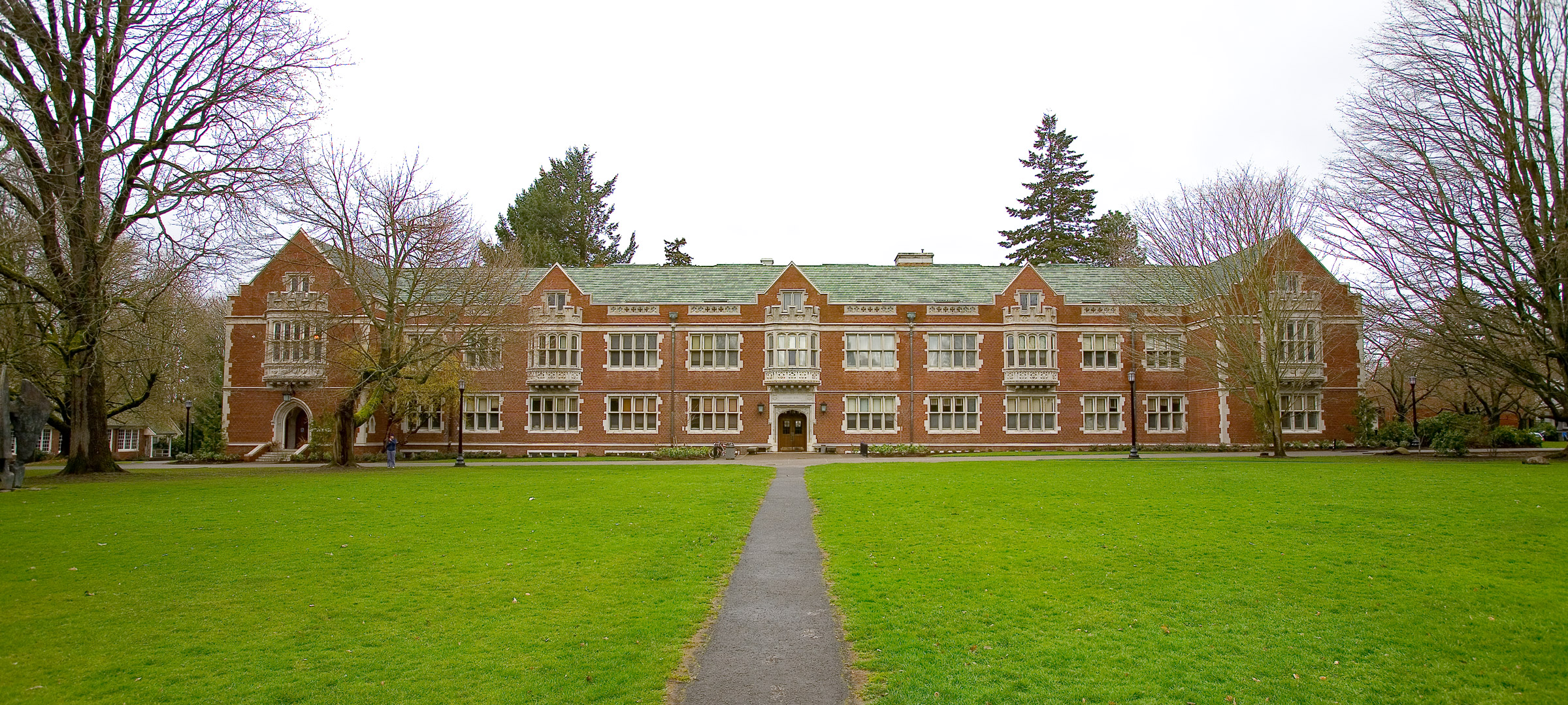 Eliot Hall (seen from the south) on the campus of Reed College in Portland, Oregon.